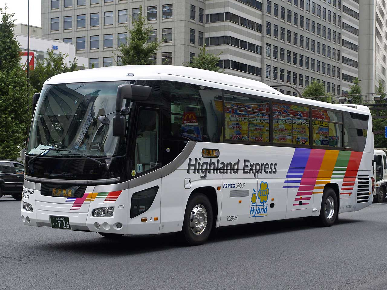 Fleet of Matsumoto Electric Railway Bus, 1st car of Hino Selega Hybrid (RU1ASAR) for Chuo Expressway intercity Bus between Matsumoto, Nagano and Shinjuku, Tokyo. License plate: NNM200 KA-726（松本200か・726） Place: Nishi-Shinjuku, Shinjuku ward, Tokyo Japan